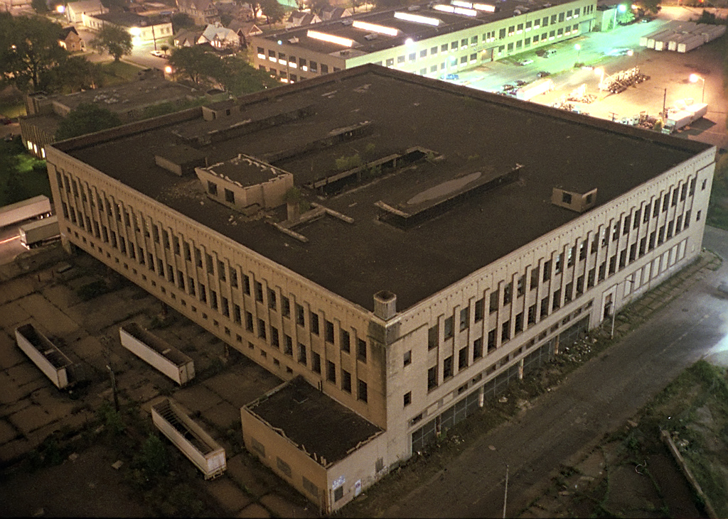 The Roosevelt warehouse Detroit school book depository building in August of 2000, after being damaged by fire and abandoned. Ailanthus altissima is visible growing on the third floor beneath a hole in the roof.